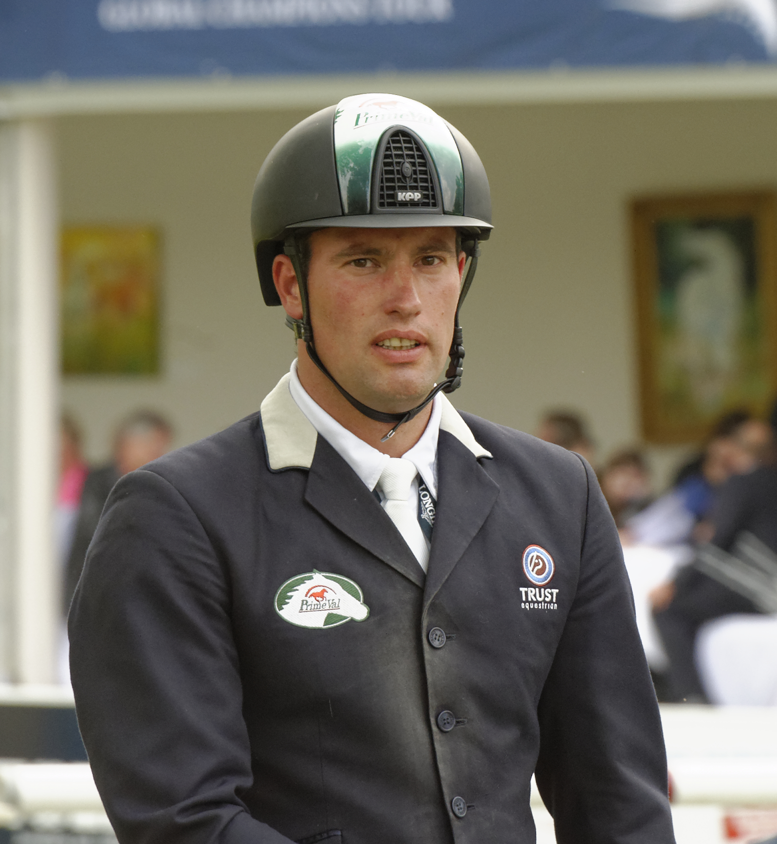 Internationales Pfingstturnier Wiesbaden 2013 The making of this document was supported by the Community-Budget of Wikimedia Germany.